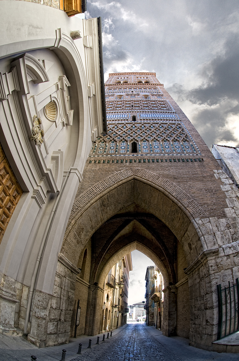 Torre mudéjar de el Salvador. Teruel, Aragón.